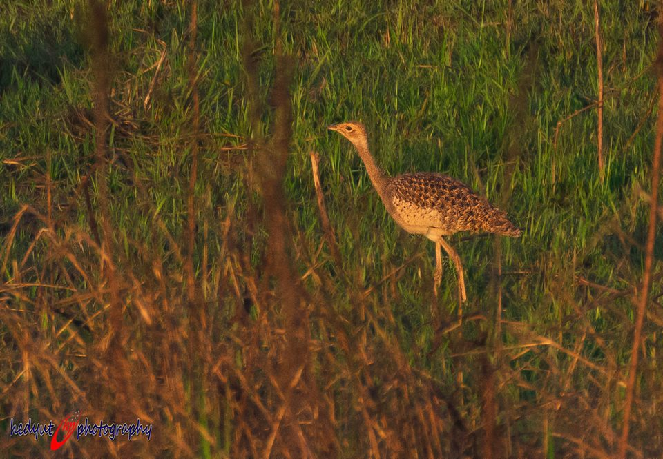 Bengal Florican(male) clicked at Manas National park Assam by Hedayeat Ullah